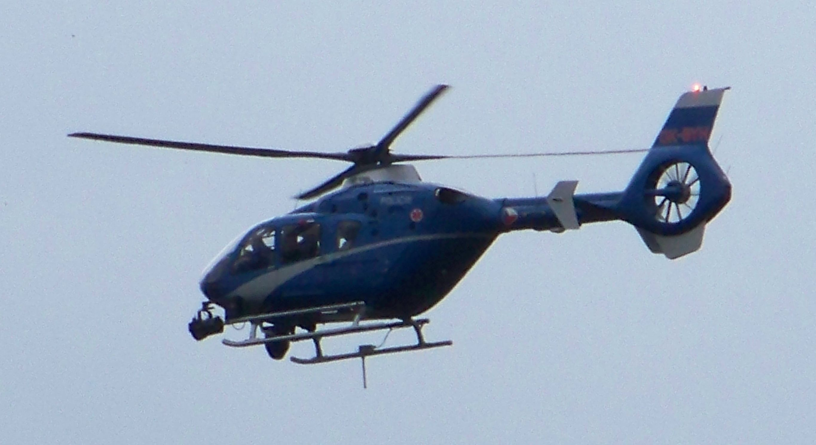 A police helicopter OK-BYH, Prague-Zbraslav-Baně, the Czech Republic.